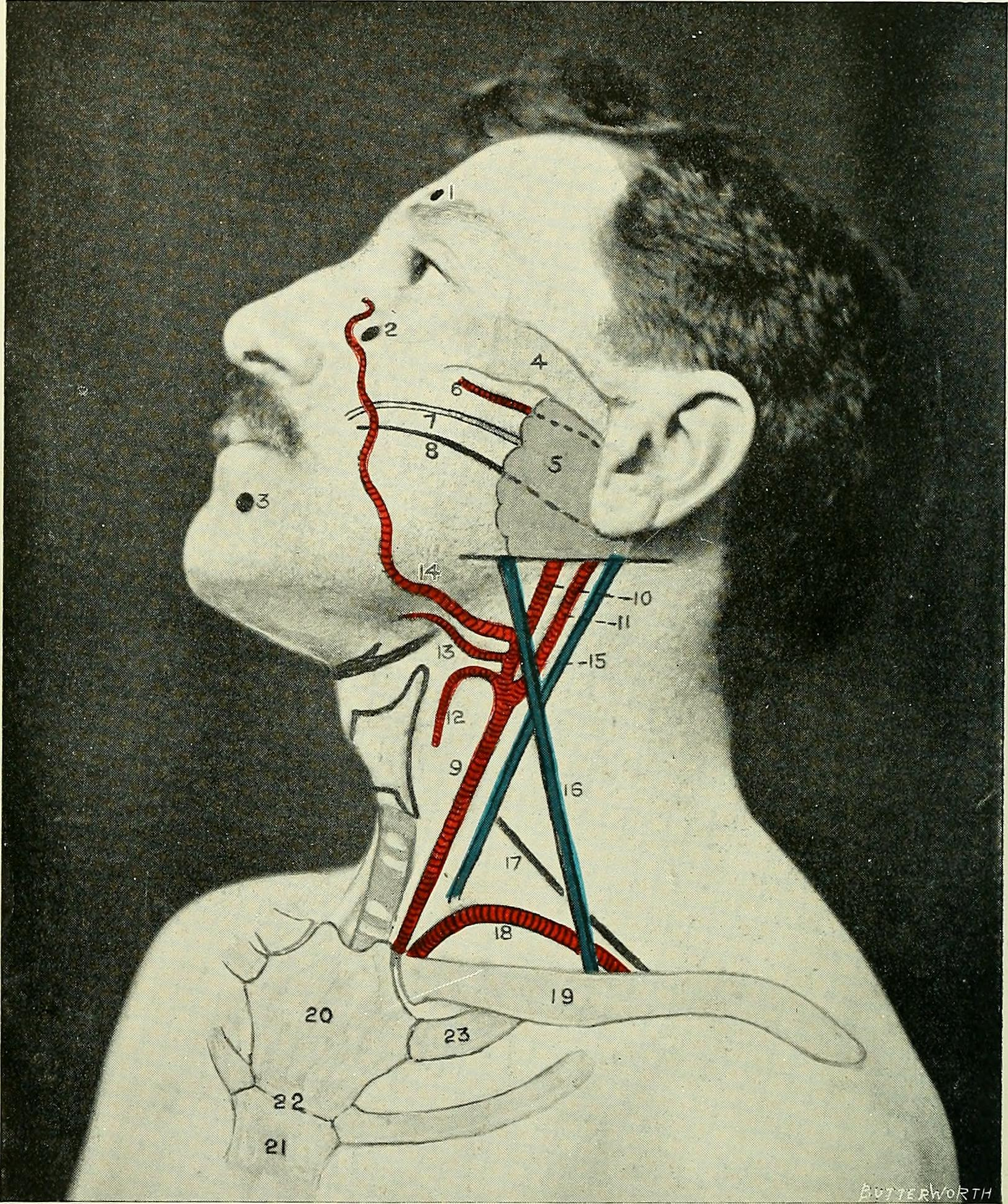 Title: Landmarks and surface markings of the human body Year: 1913 (1910s) Authors: Rawling, L. Bathe (Louis Bathe) Subjects: Human anatomy Publisher: New York, P. B. Hoeber Text Appearing Before Image: in the substance of the submaxillary salivarygland, and then enters on its facial course by curling roundthe inferior border of the lower jaw immediately anteriorto the masseter muscle, about i; inches in front of theangle of the jaw. The vessel then passes upwards towardsthe inner canthus of the eye, there terminating as the angular artery. The occipital artery arises from the outer side of theexternal carotid artery in the upper part of the carotidtriangle, and passes upwards and backwards,under cover of the posterior belly of the digas-tric muscle, towards the interval between the mastoidprocess and the transverse process of the atlas. At theapex of the posterior triangle the artery is joined by thegreat occipital nerve (posterior primary division of thesecond cervical nerve), the two structures then passingupwards on to the vault of the skull. The posterior auricular irtery arises from the externalcarotid, immediately above the posterior belly of the THE SIDE OF THE FACE AND NECK Text Appearing After Image: FIG. III. 1. The supra-orbital foramen. 13. The 2. The infra-orbital foramen. 14. The 3. The mental foramen. 15. The 4. The zygoma. 16. The 5. The parotid gland. 17. The 6. The transverse facial artery. pi 7. Stensens duct. iS. The 8. The facial nerve. 19. The 9. The common carotid artery. 20. The 10. The external carotid artery. 21. The 11. The internal carotid arter). 22. The 12. The superior thyroid artery. 23. The lingual artery. facial artery. interna) jugular vein. external jugular vein. upper limit of the brachial exus. subclavian artery. clavicle. manubrium sterni. gladiolus sterni. angle of Ludwig. first costal cartilage. To face Fi^. IV.,pfi. 14, 15. THE SIDE OF THE FACE AND NECK